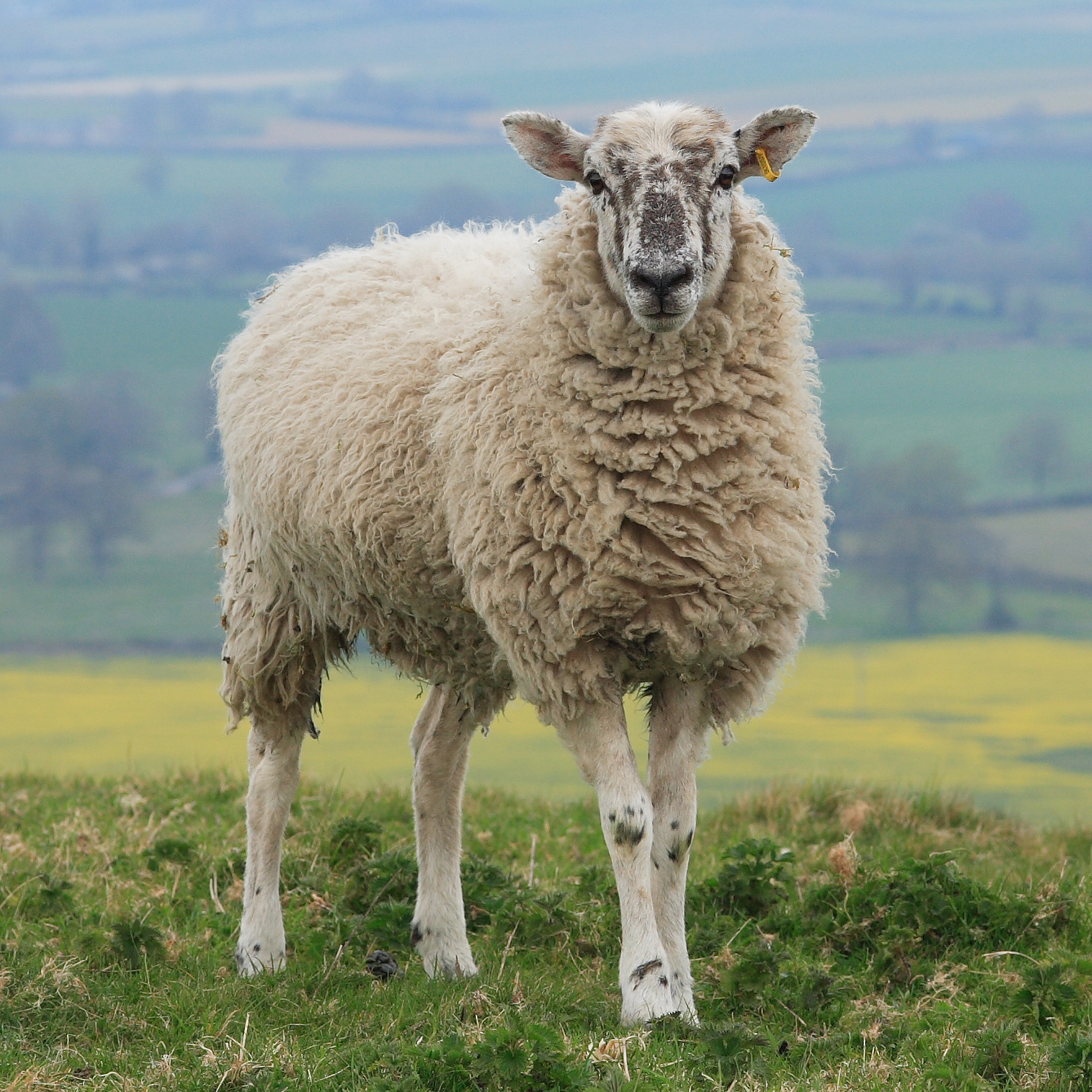 A sheep from Hambledon Hill, Dorset